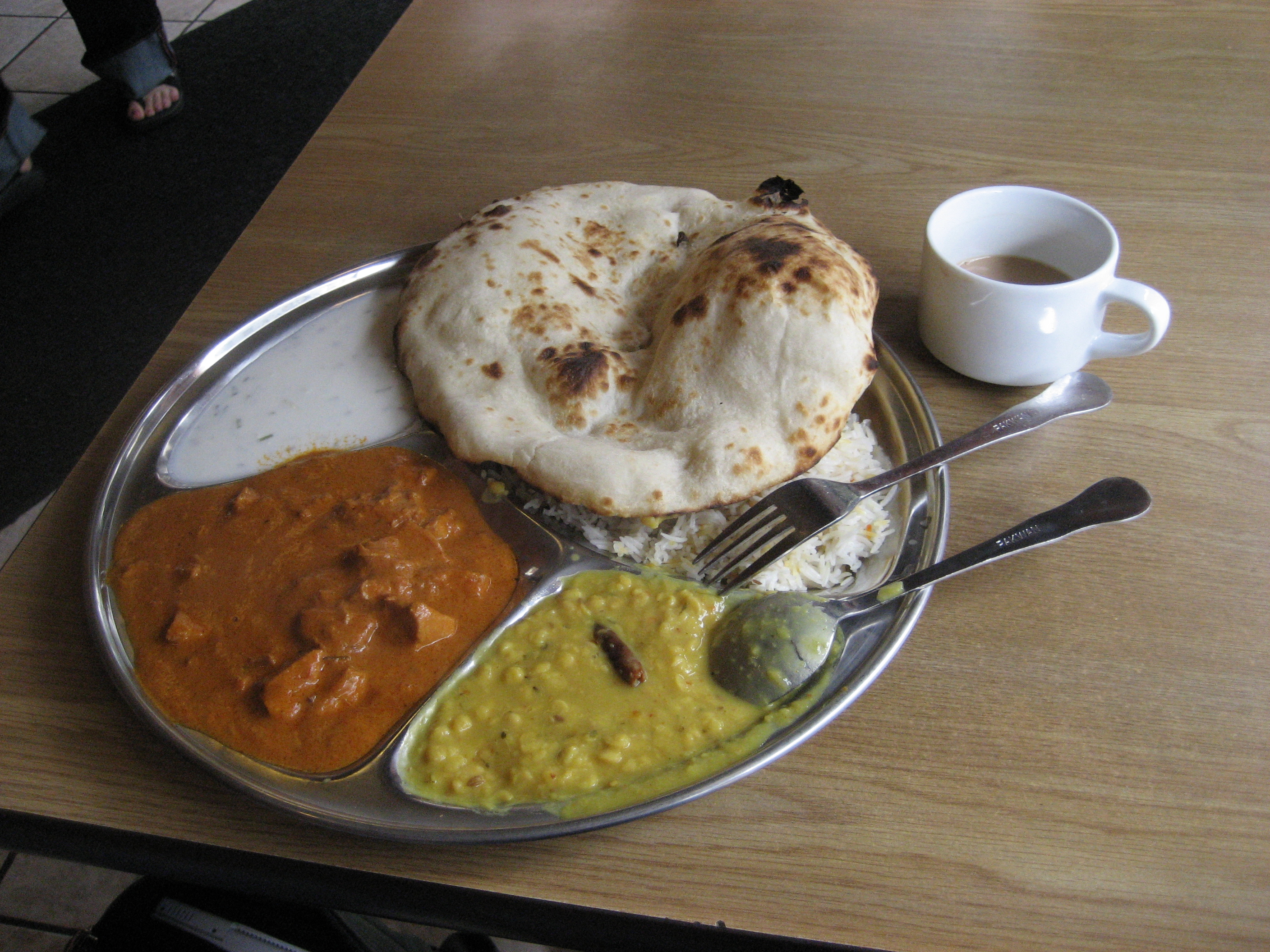 $6.50 gets you a lot of food at that place. (Update: I got pretty ill after eating there again, so I'm now leaning towards recommending Lahore Karahi or Shalimar, both within a block or so, instead. Still, tough to argue with $6.50 getting you a platter of food the size of a truck hubcap.)